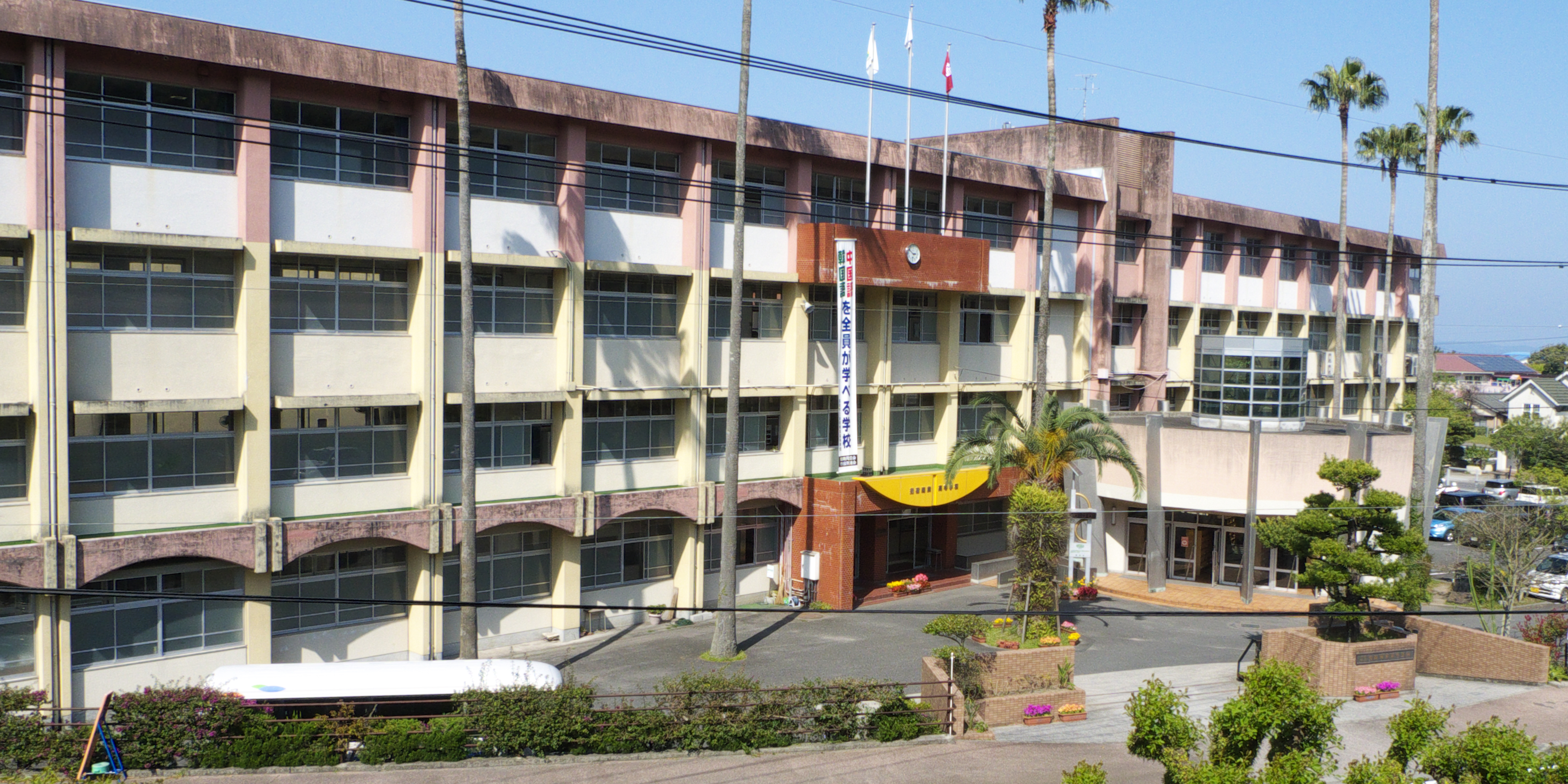 Ibusuki Municipal Ibusuki High School of Commerce in Ibusuki City, Kagoshima Prefecture, Japan